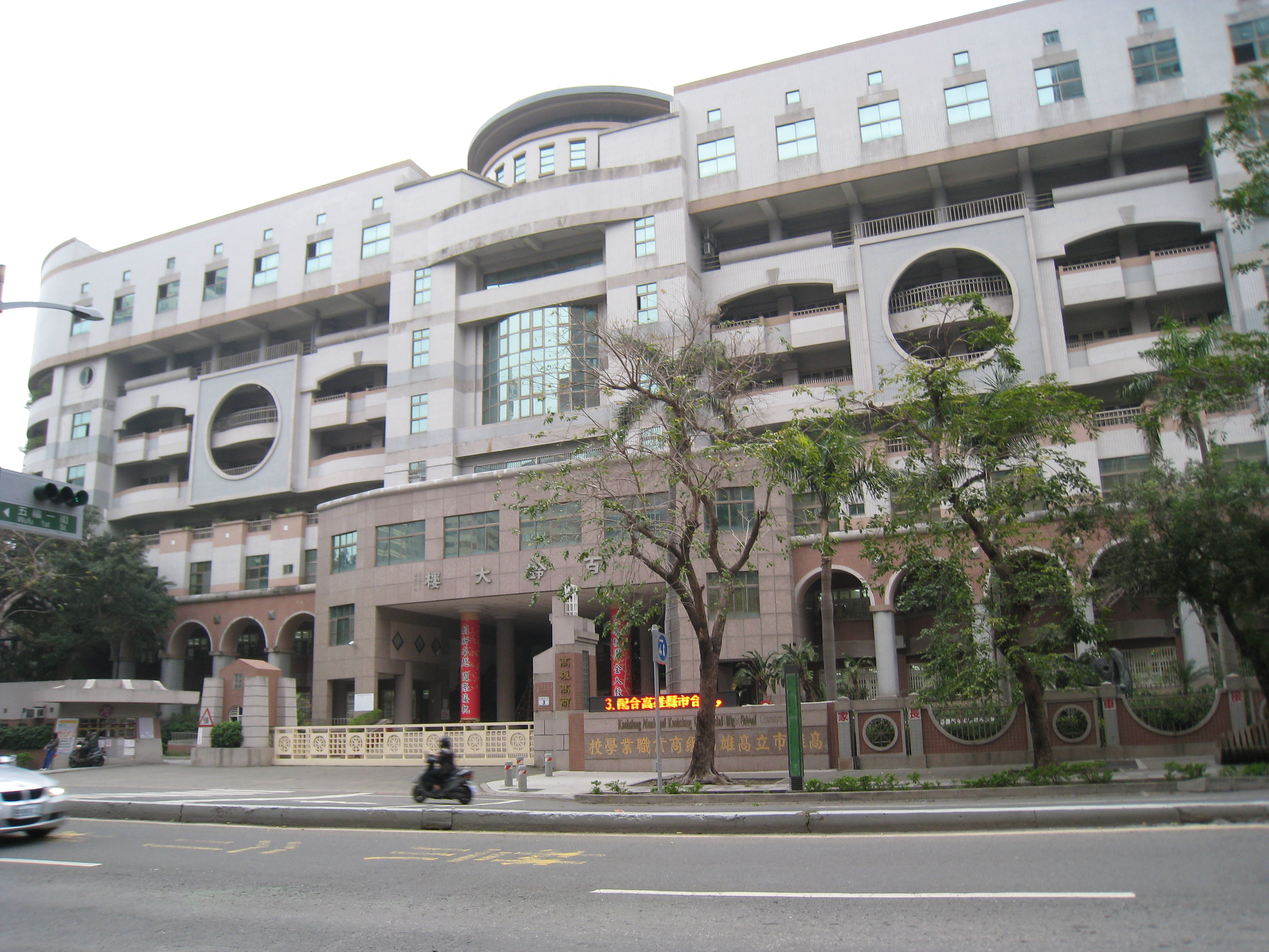 Kaohsiung Municipal Kaohsiung High School of Commerce中文（台灣）: 高雄市立高雄高級商業職業學校